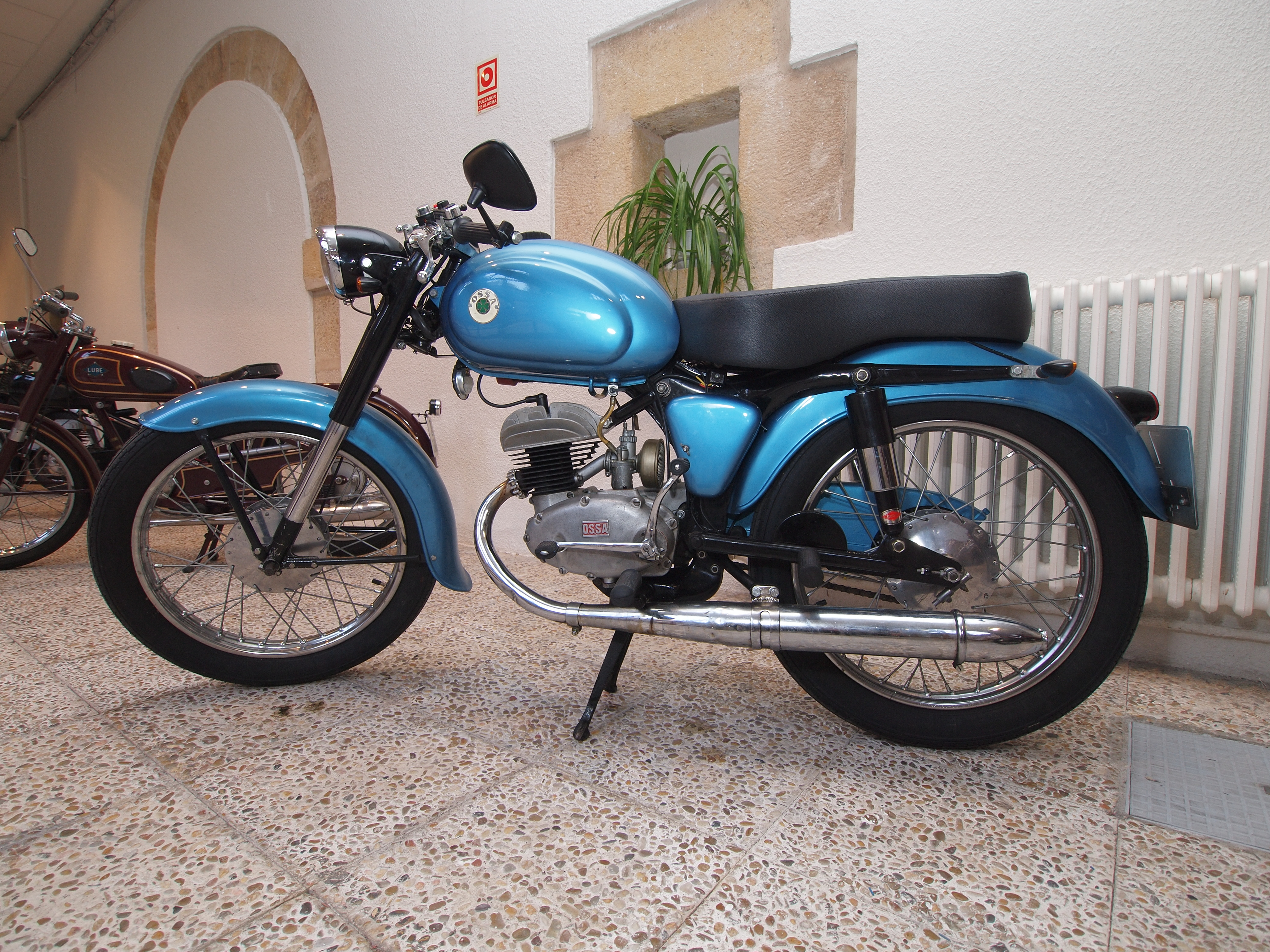 OSSA 150 motorbike (1958) at exhibition in the II Show "Toda una Vida en Moto" of the Asociacion Motociclista Zamorana (Zamora, Spain, February 2012)